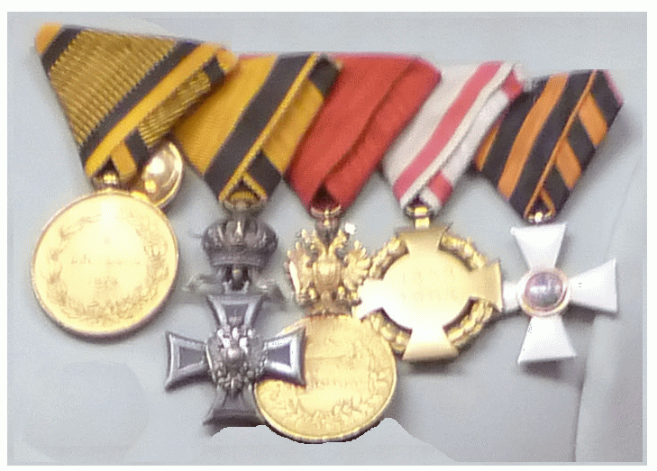 Decorations of Franz Jozef I of Austria